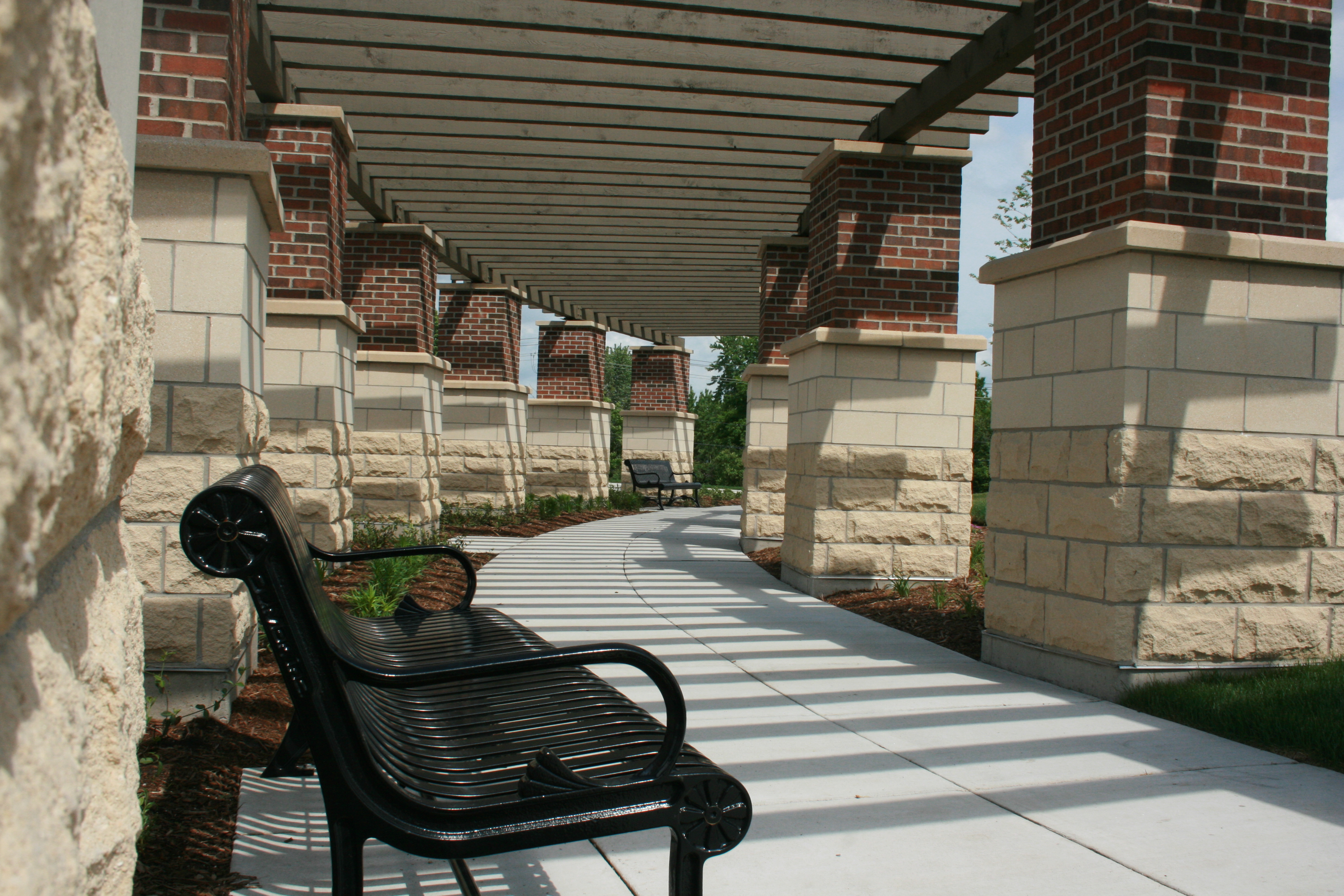 Oswego, Illinois - Village Hall